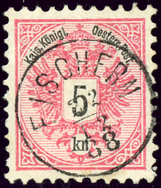 Austrian KK stamp, issue 1883, 5 kreuzer, fingerhut cancelled at FISCHERN in 1888, Bohemia (Rybáře, part of Karlovy Vary) - 45 Points Klein